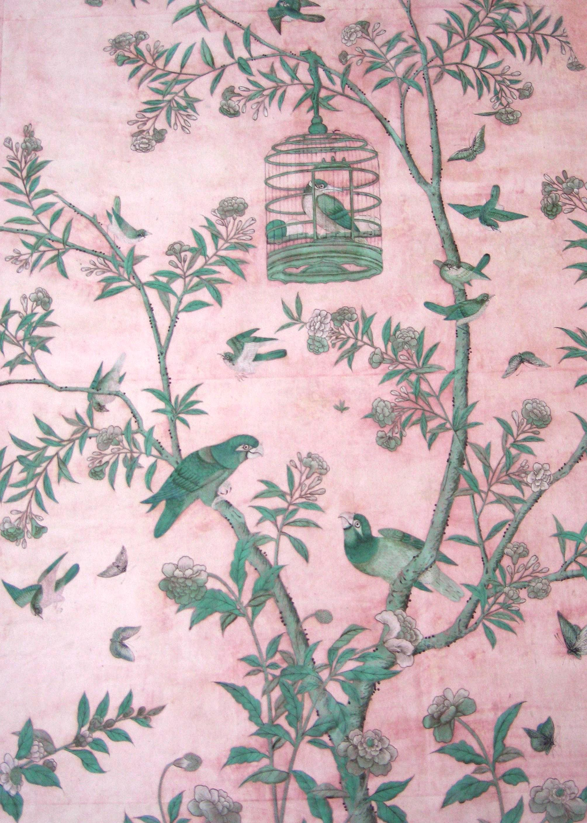 Chinese floral Wallpaper at Badenburg Castle, Munich Qing Dynasty